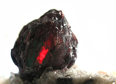 Calcite, Cinnabar, Dolomite, Quartz Locality: Tongren Mine, Wanshan District, Tongren Prefecture, Guizhou Province, China (Locality at ) Size: small cabinet, 5.4 x 3.9 x 2.3 cm Cinnabar on Quartz, Dolomite and Calcite A single, twinned, gemmy, lustrous, bright red, crystal of cinnabar, measuring 1.8 cm in length, is perched on gem clear, colorless, quartz crystals to .3 cm in length and white dolomite rhombs to .5 cm across. Oddly, the whole underside of the specimen is covered in translucent, lustrous, tan crystals of calcite to .7 cm across. My gut feeling is that this piece dates back at least to the very early 1980s and was probably one of the very first cinnabars to come out in a trickle that shocked the mineral world. I could see htis being a $10k rock at the time....they were that astonishing! Of cours,e more were mined afterwards and came out in the mid 90s. But now, these large cyclic twins are very rare, and good combo specimens like this more so. They certainly dont "make em like they used to" !